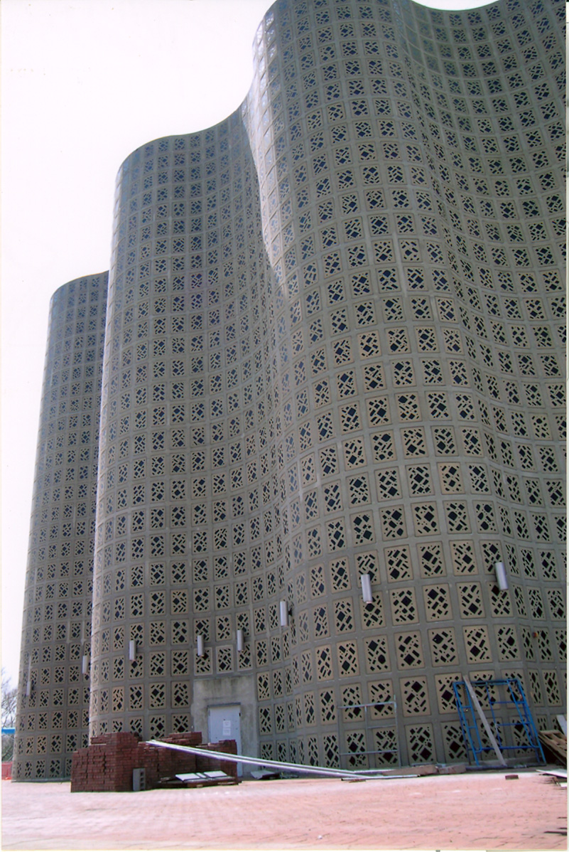 An exterior shot of the Great Hall, New York Hall of Science.